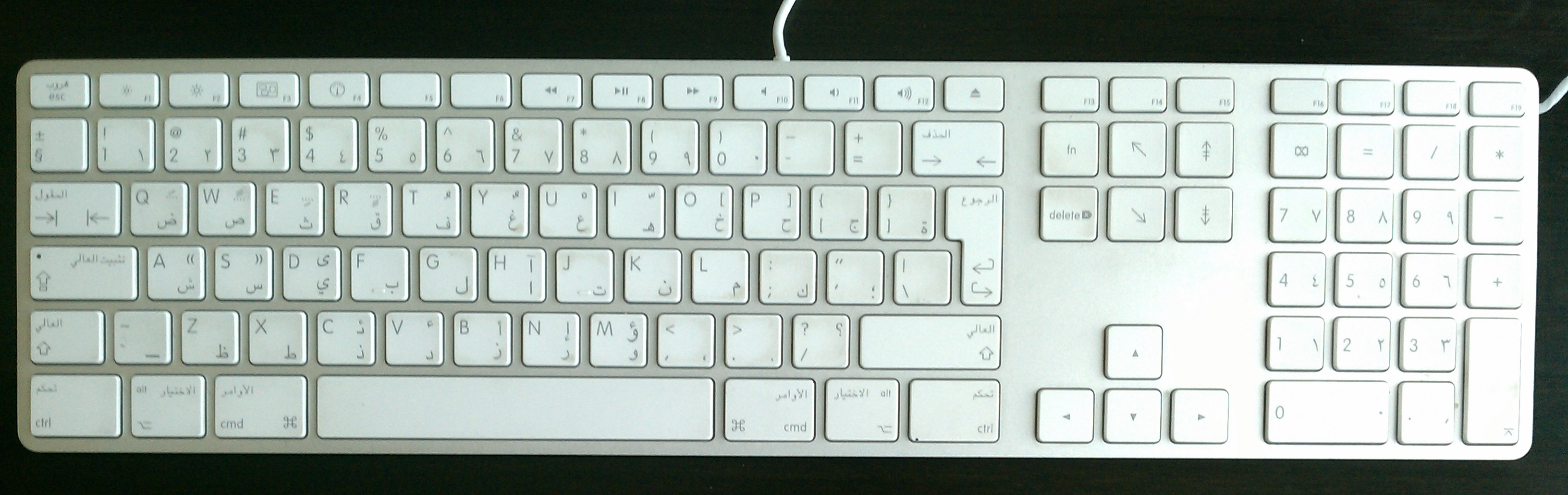 Arabic-English Apple Inc keyboard